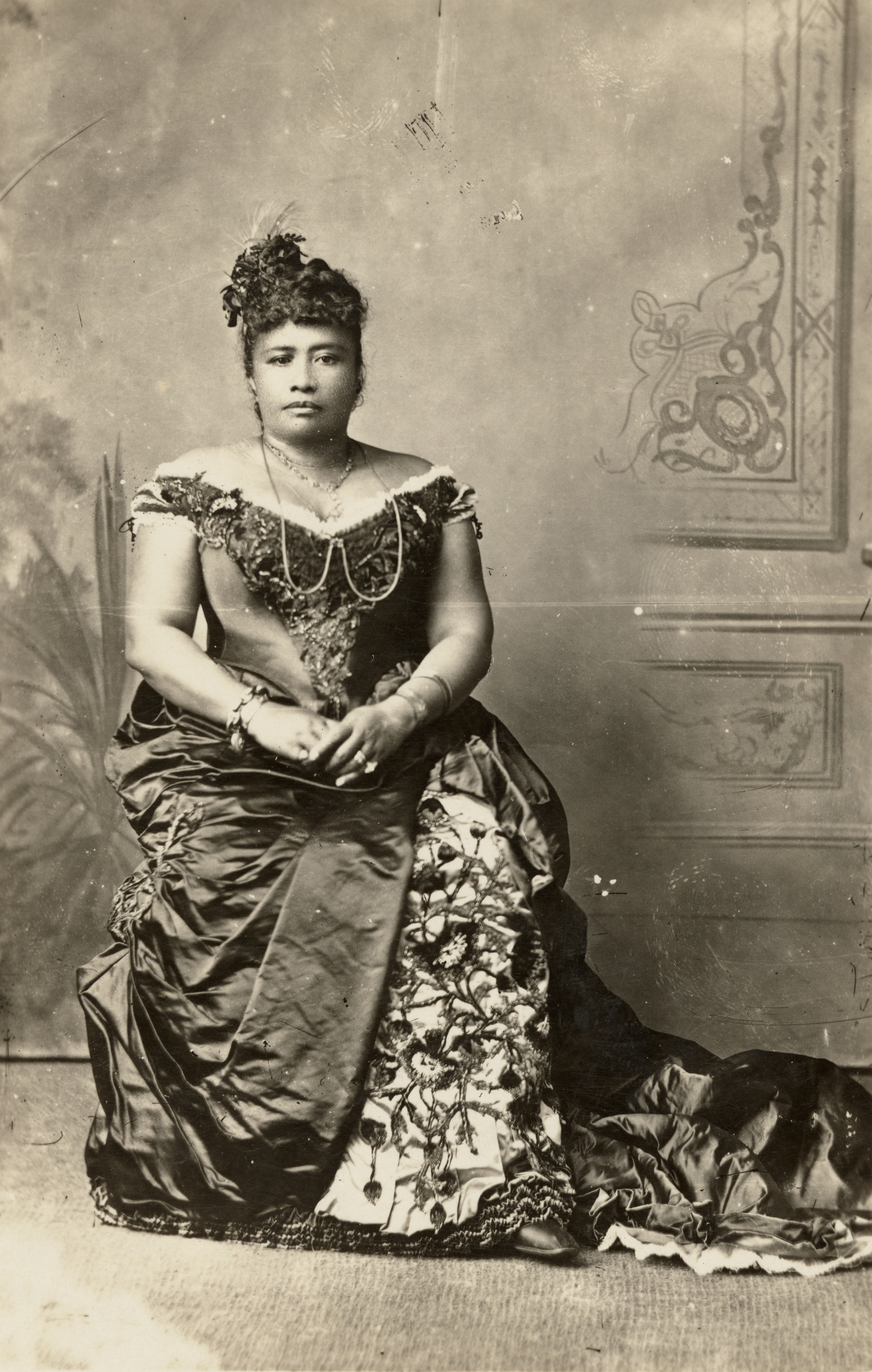 Liliʻuokalani (September 2, 1838 – November 11, 1917).